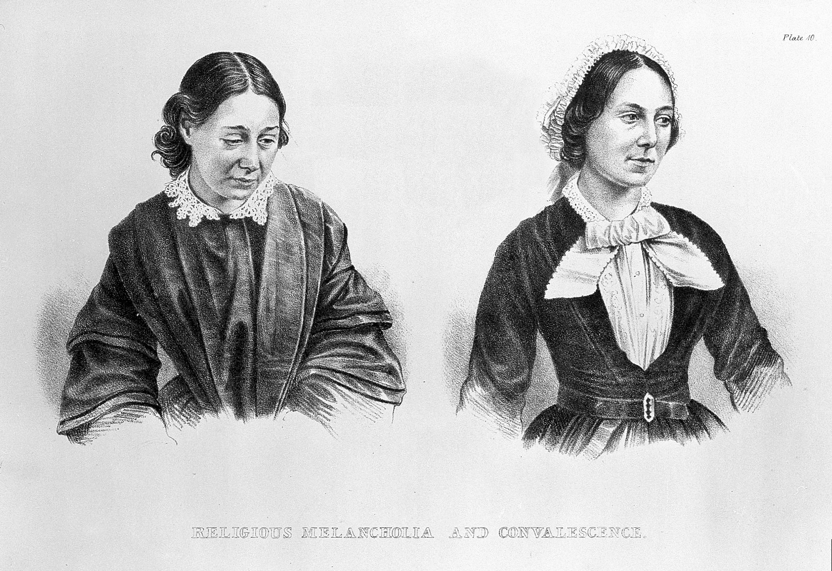 'Religious melancholia and convalescence' Wellcome Images Keywords: Psychiatry